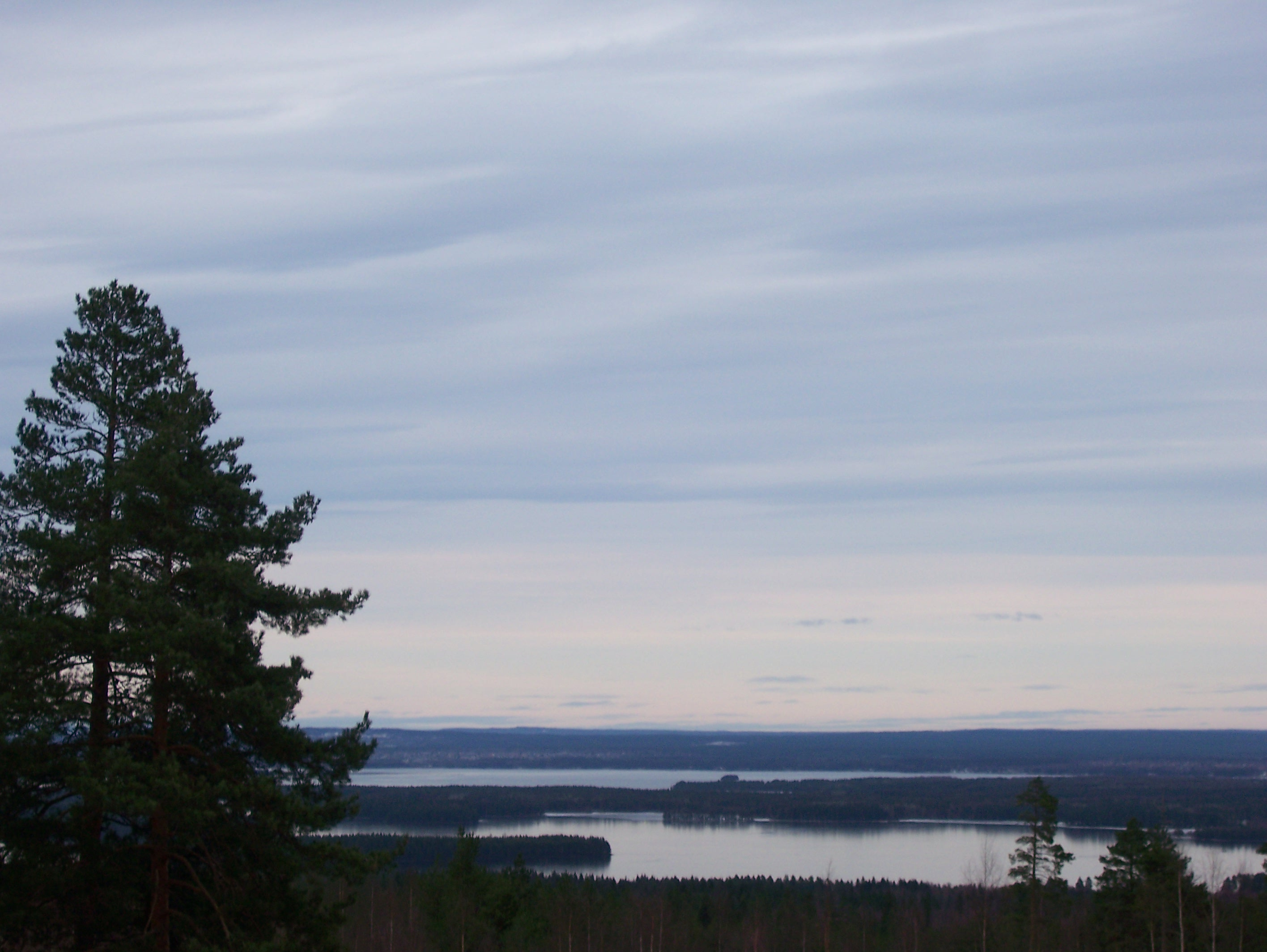 View of Lake Siljan from Gesundaberget.